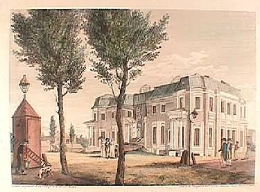 Morris' Folly - In 1794 Robert Morris began building this palatial townhouse in Philadelphia. After his imprisonment for debt in 1798, the unfinished house came to be known as "Morris' Folly." It stood until 1800.